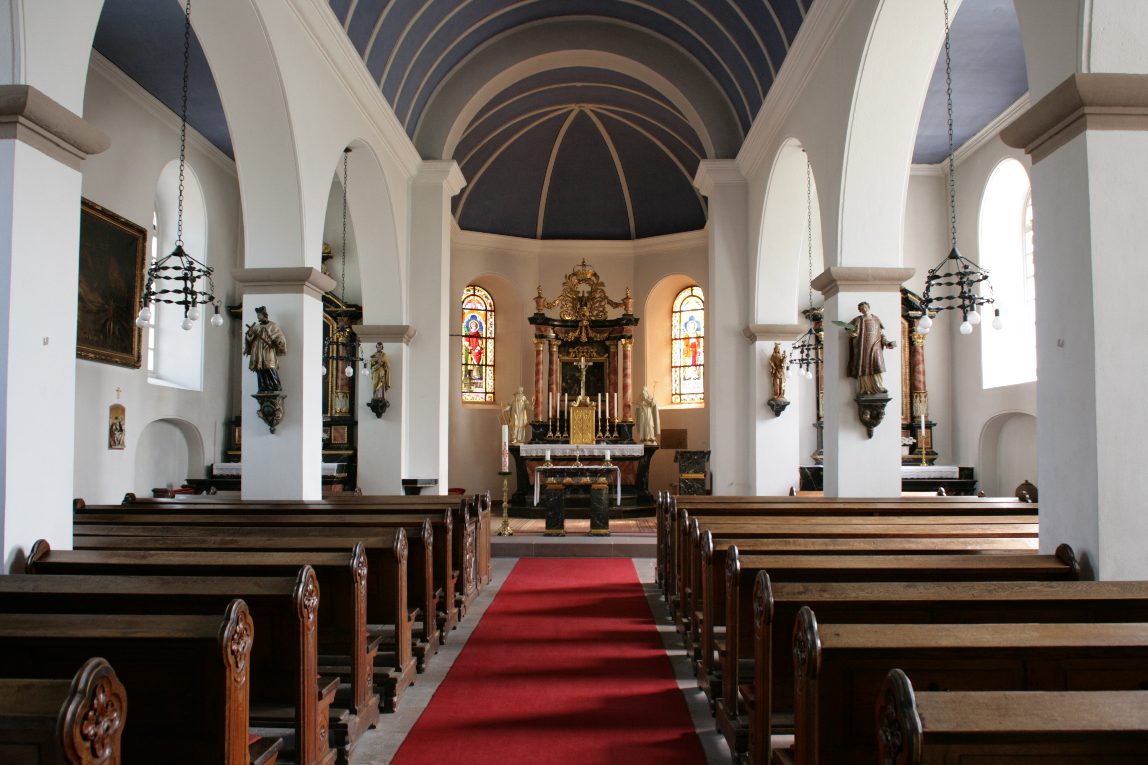 St. Laurentius in Mintard, Mülheim an der Ruhr